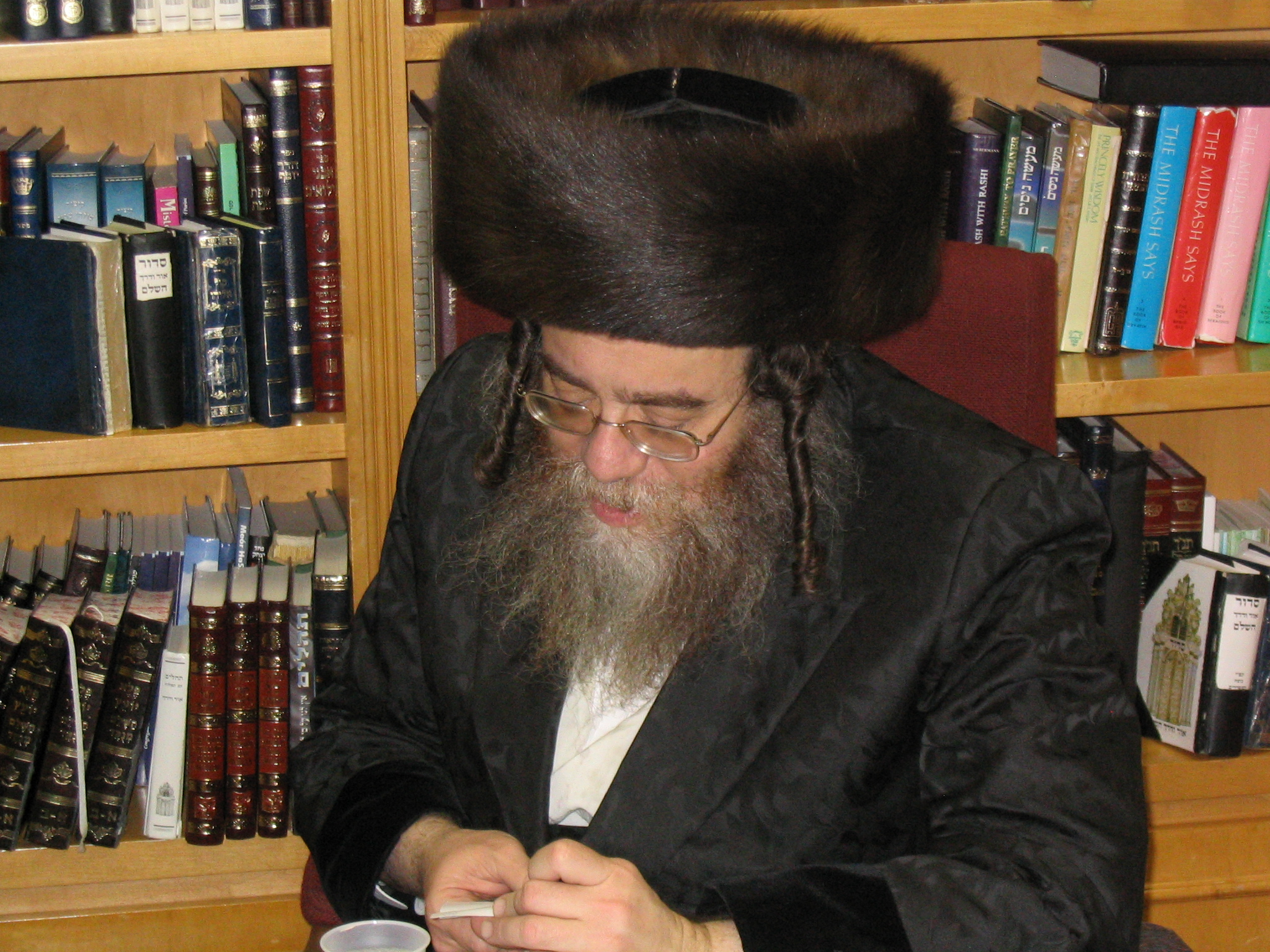 Grand Rabbi Wolf Kornreich of Shidlovtza during a visit to Miami I took this picture